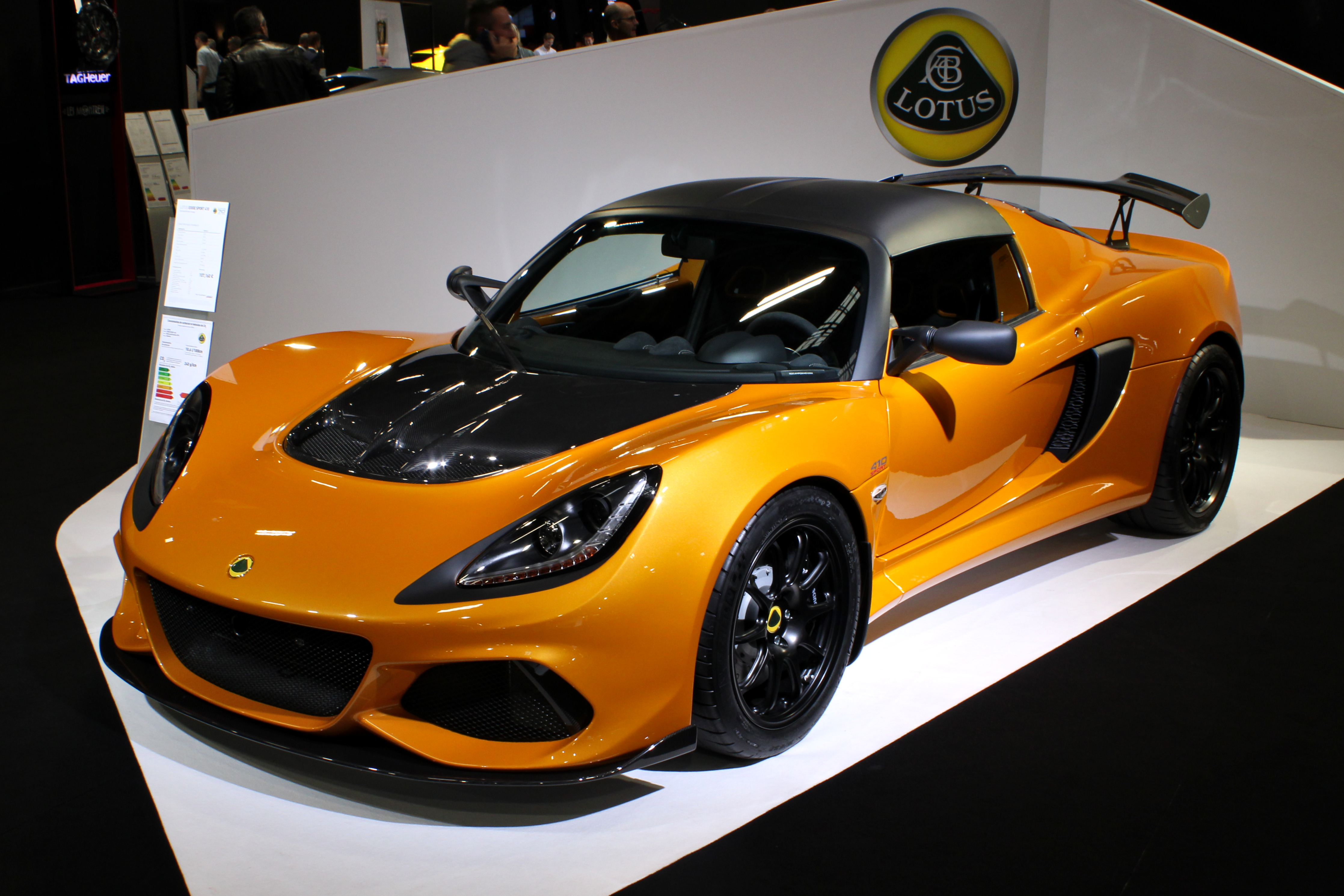 Lotus Exige Sport 410 at Paris Motor Show 2018